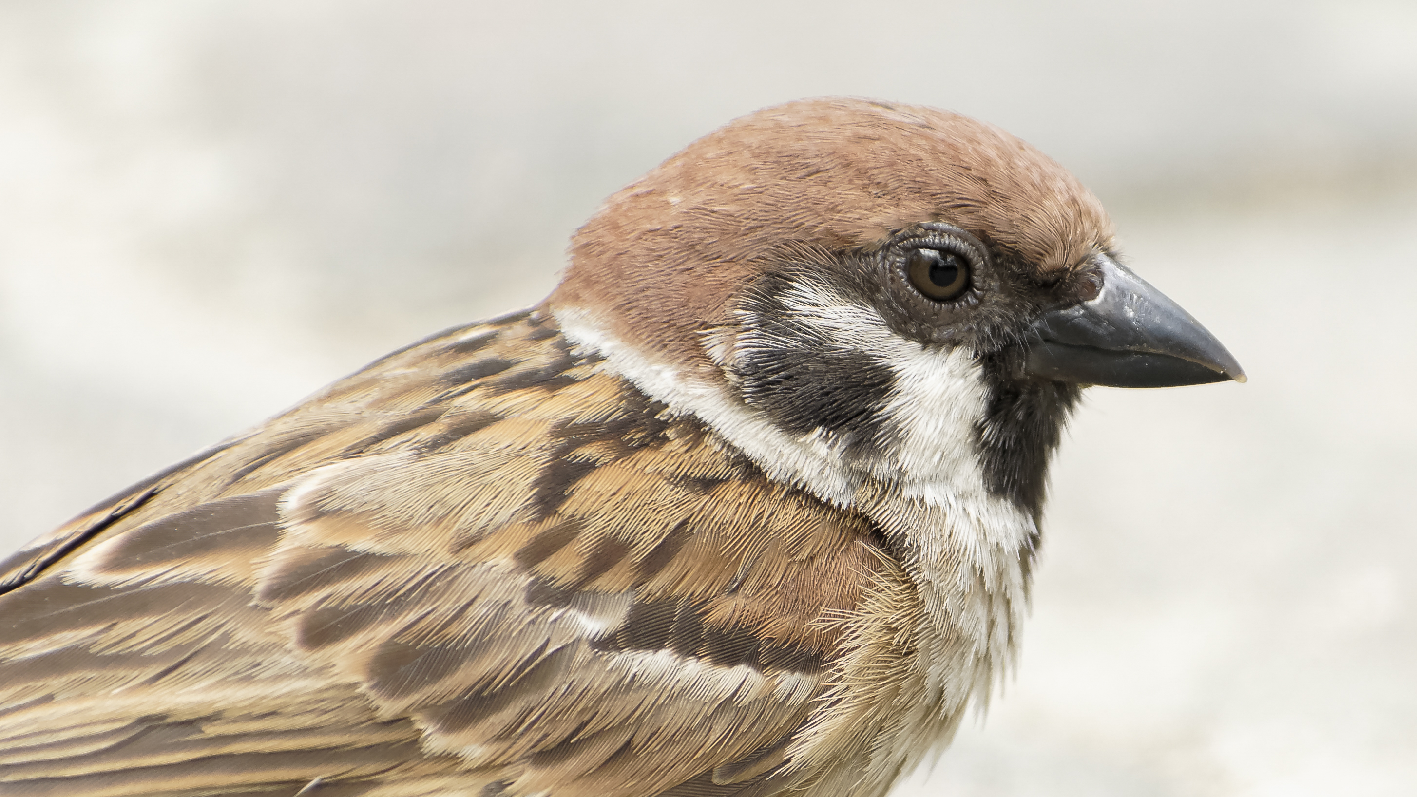 The upper body of a Eurasian Tree Sparrow (Passer montanus malaccensis), Kuala Lumpur, Malaysia.